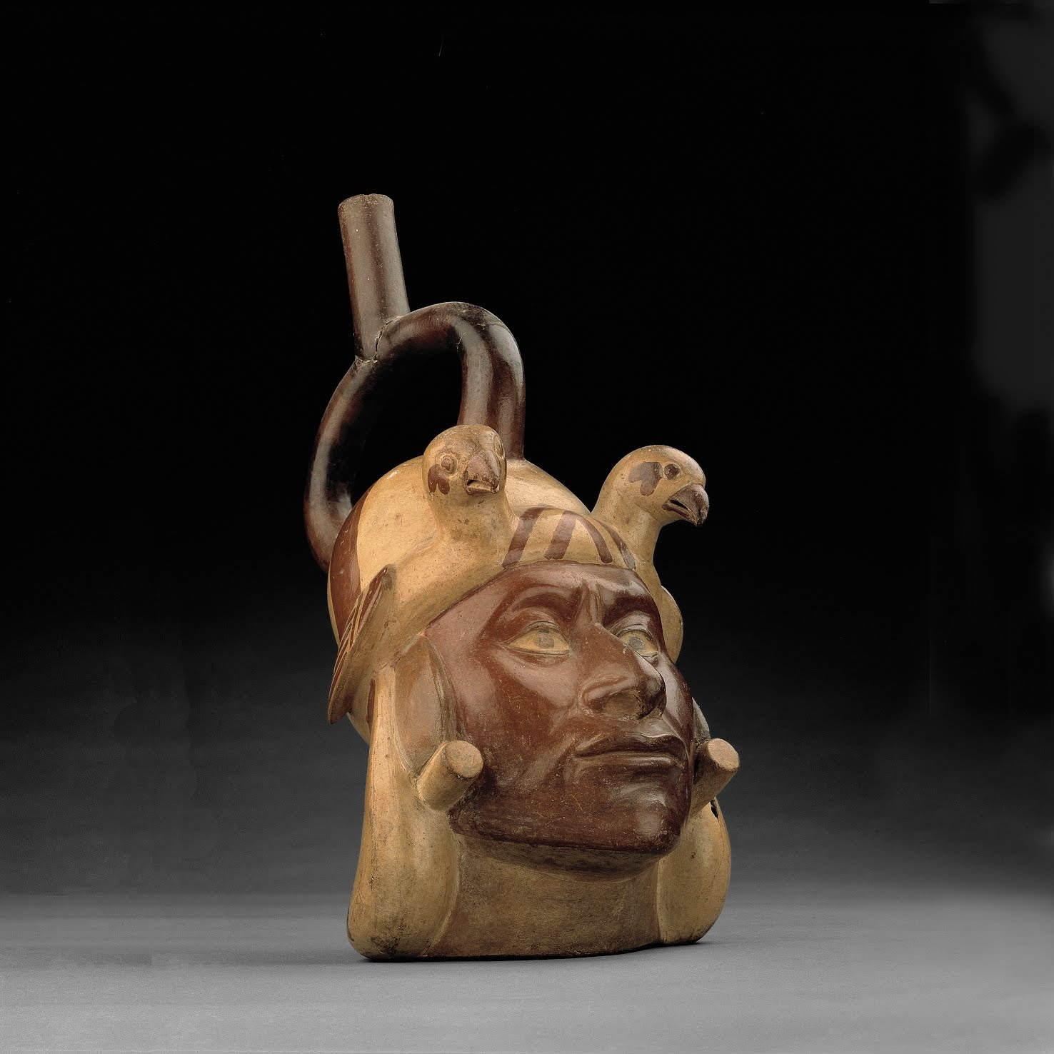 Huaco Retrato Mochica